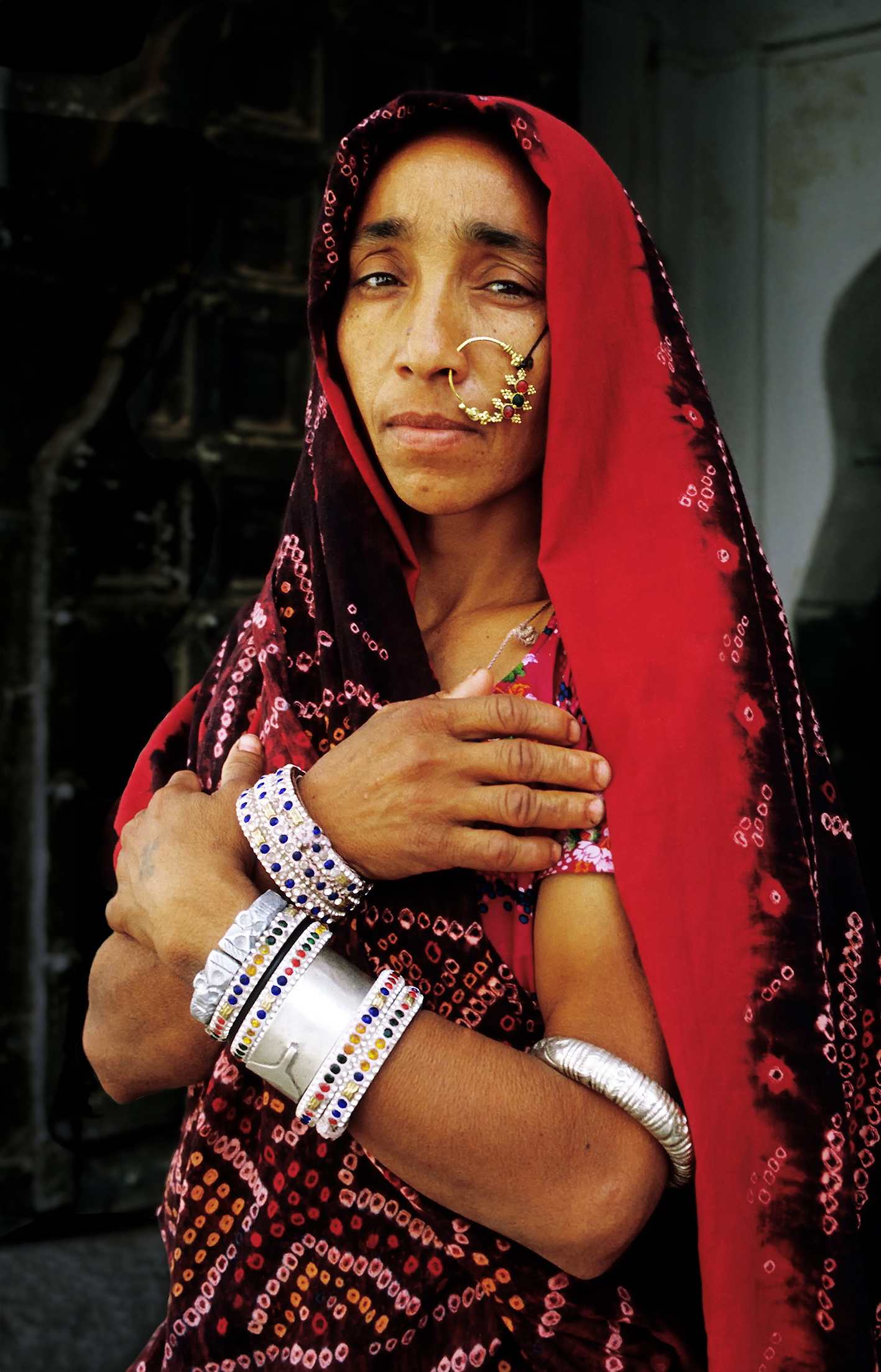 Lady in Bundi, Rajasthan, India in the year 1986.